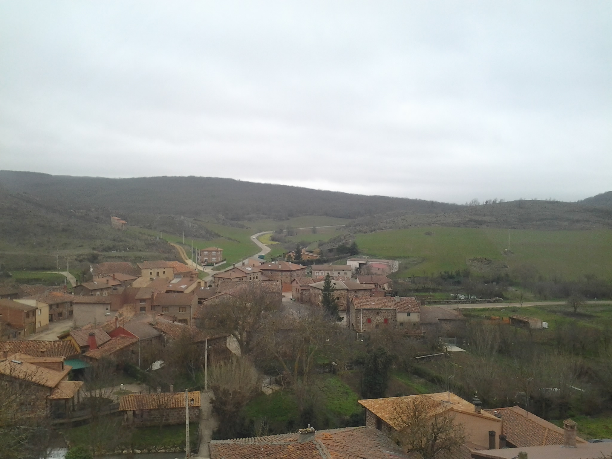 Salgüero de Juarros, Burgos, Spain, from the bell tower of the church.